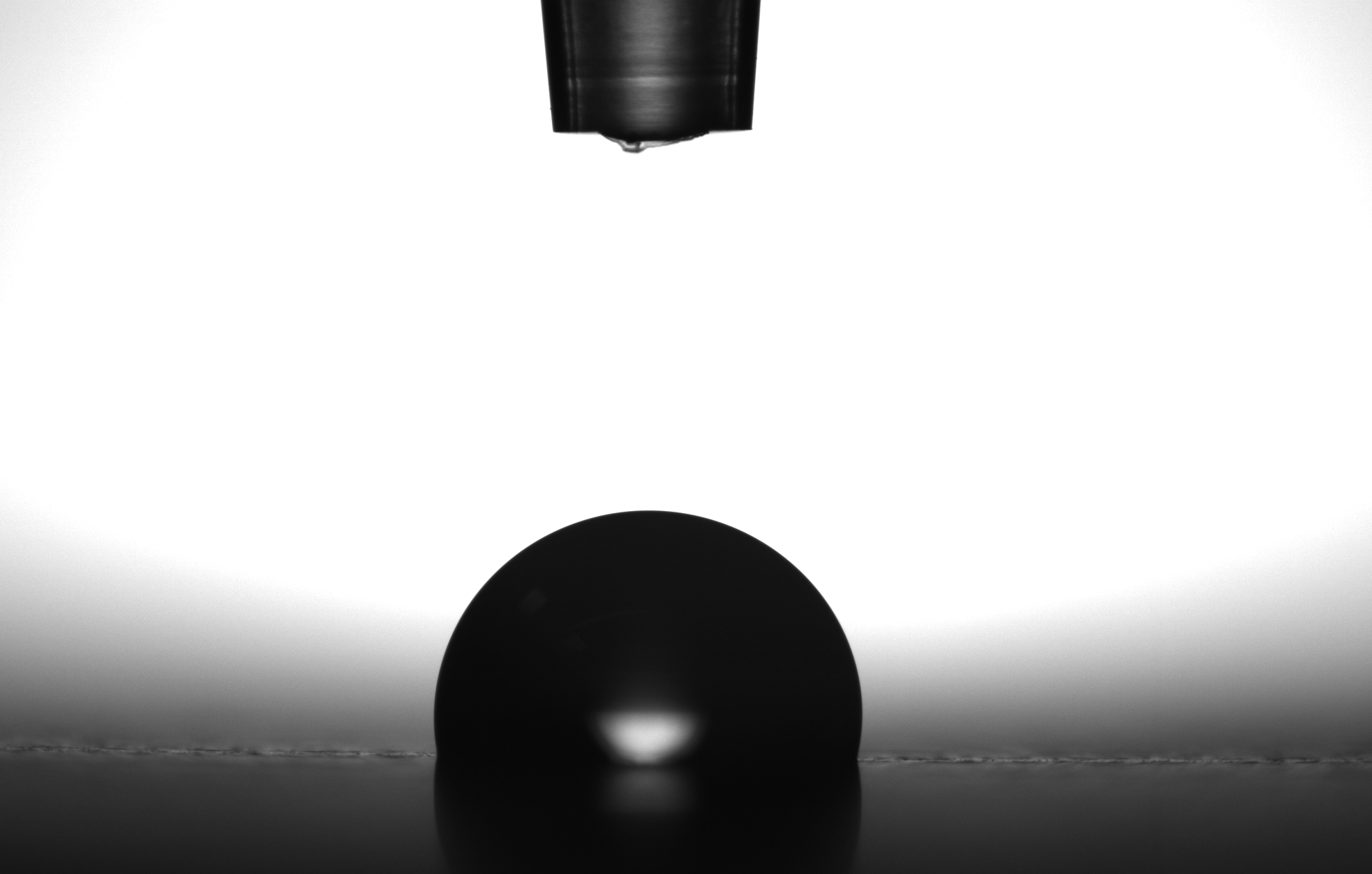 Contact angle measurement